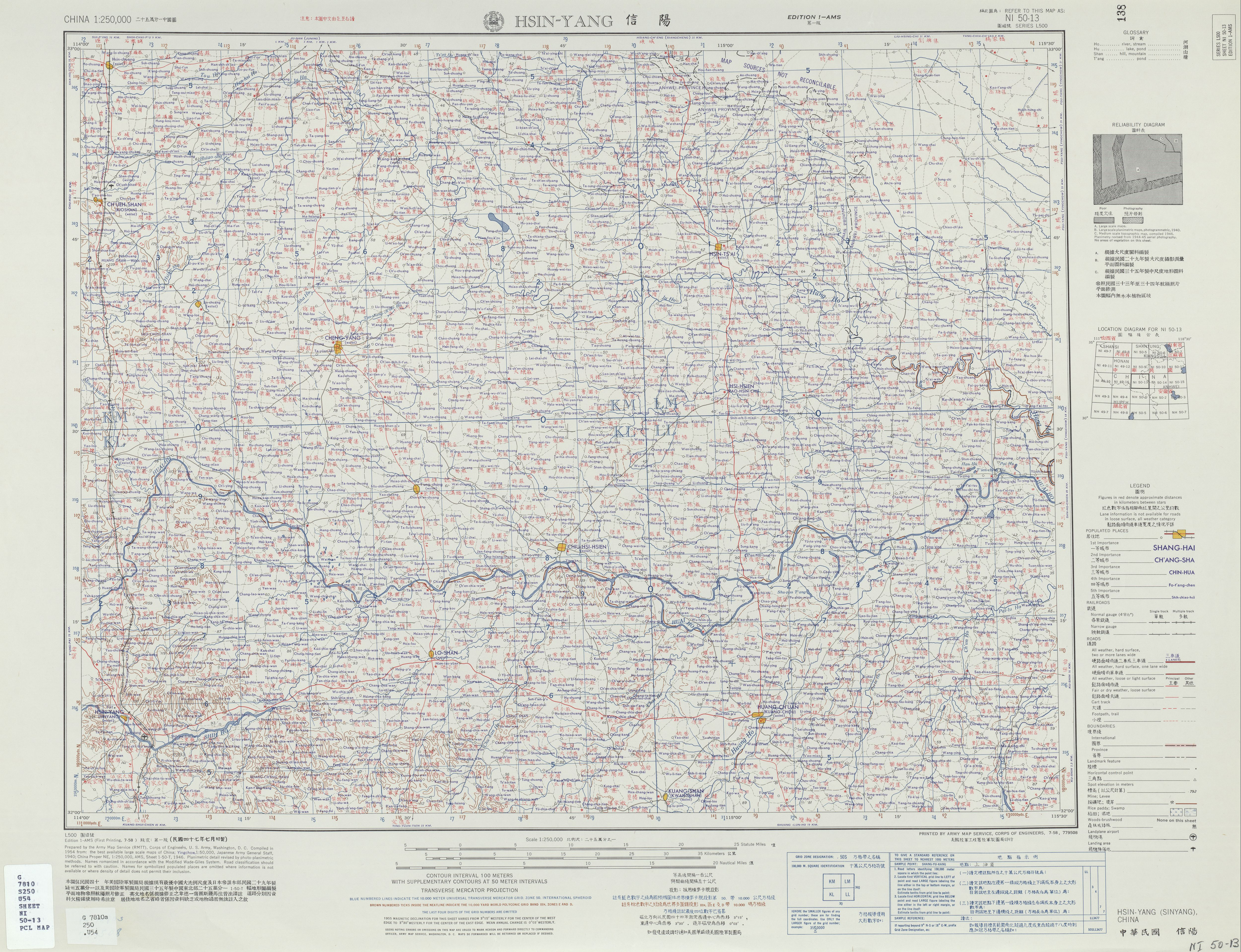 China AMS Topographic Maps